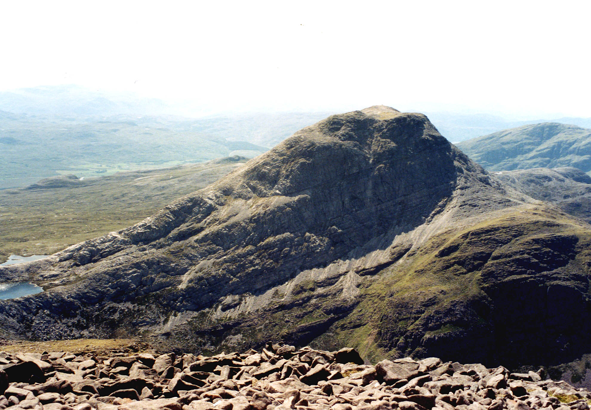 The Scottish mountain An Ruadh-stac seen from Maol Chinn Dearg, two km to the north.